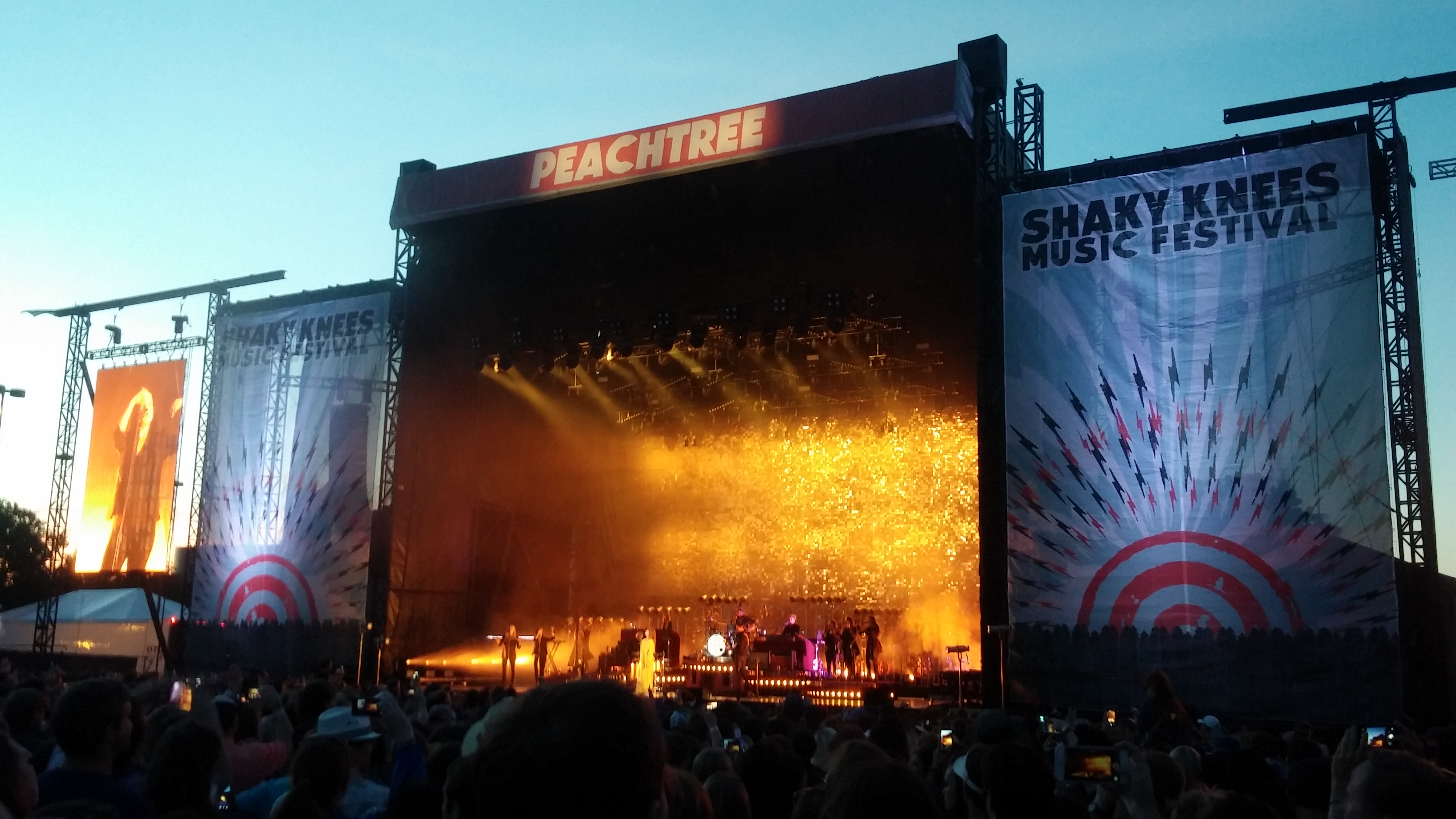 The Peachtree (main) stage at Shaky Knees Music Festival in 2016.